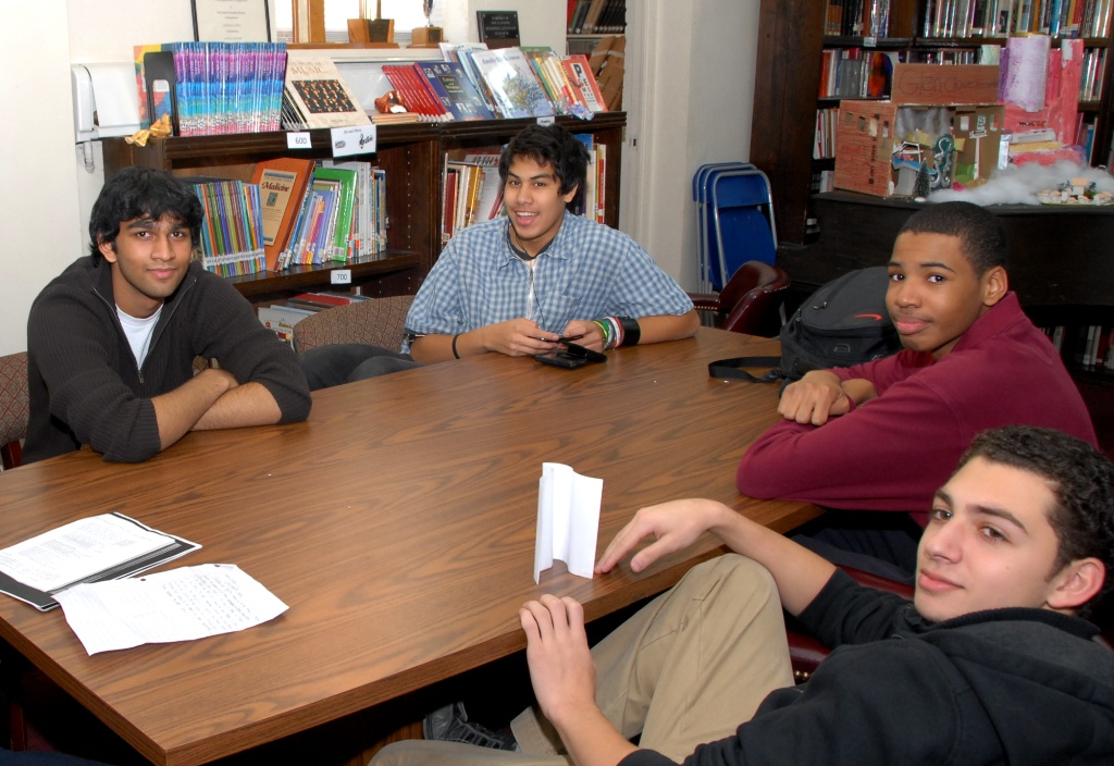 Garden School high school includes several AP and honors courses.